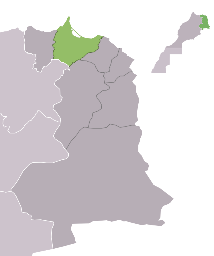 Nador Province, Oriental Region, Morocco